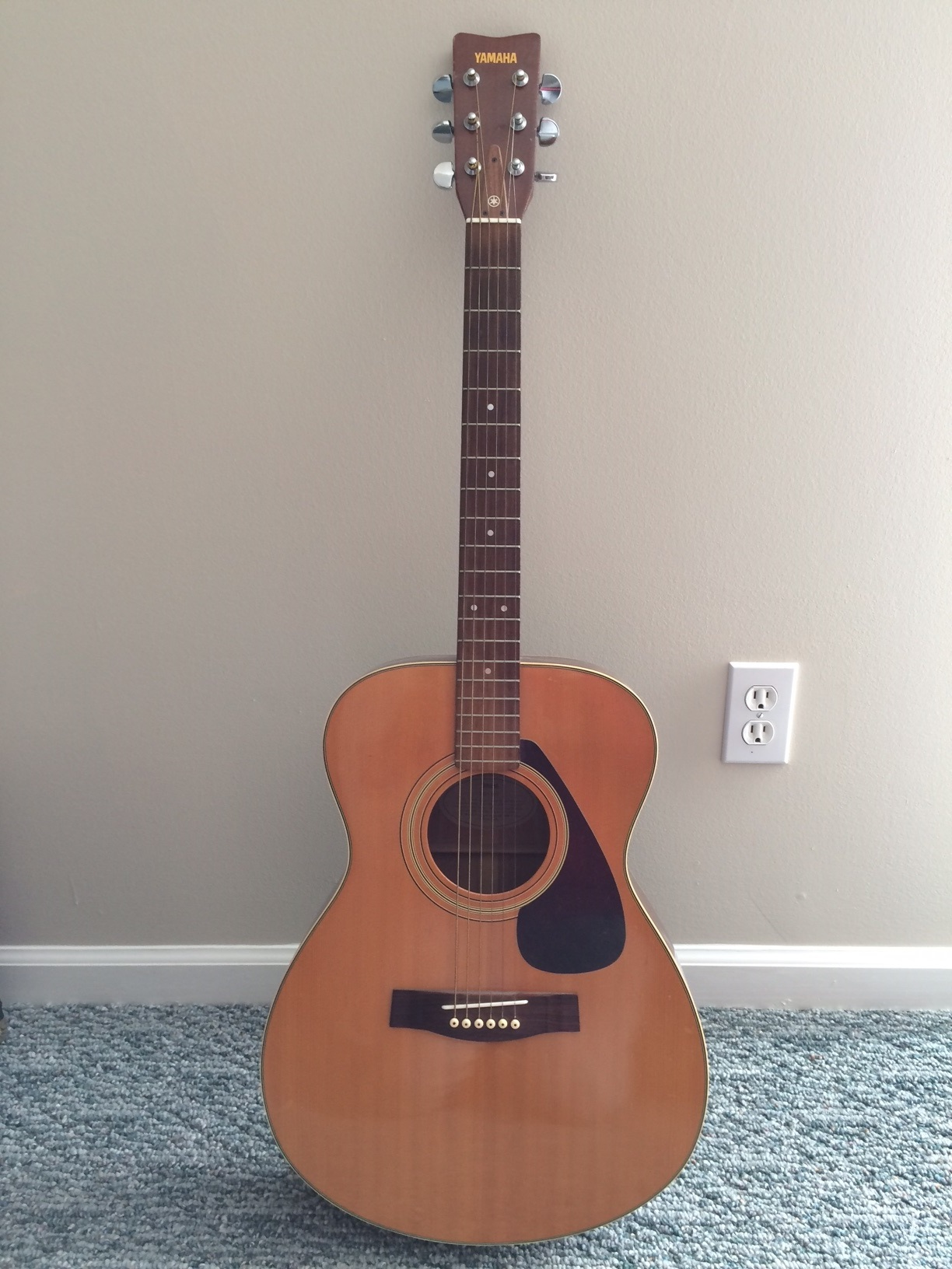 Yamaha Acoustic Guitar FG-331